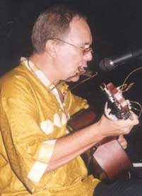 John Collins playing highlife music from Ghana on the guitar and harmonica.